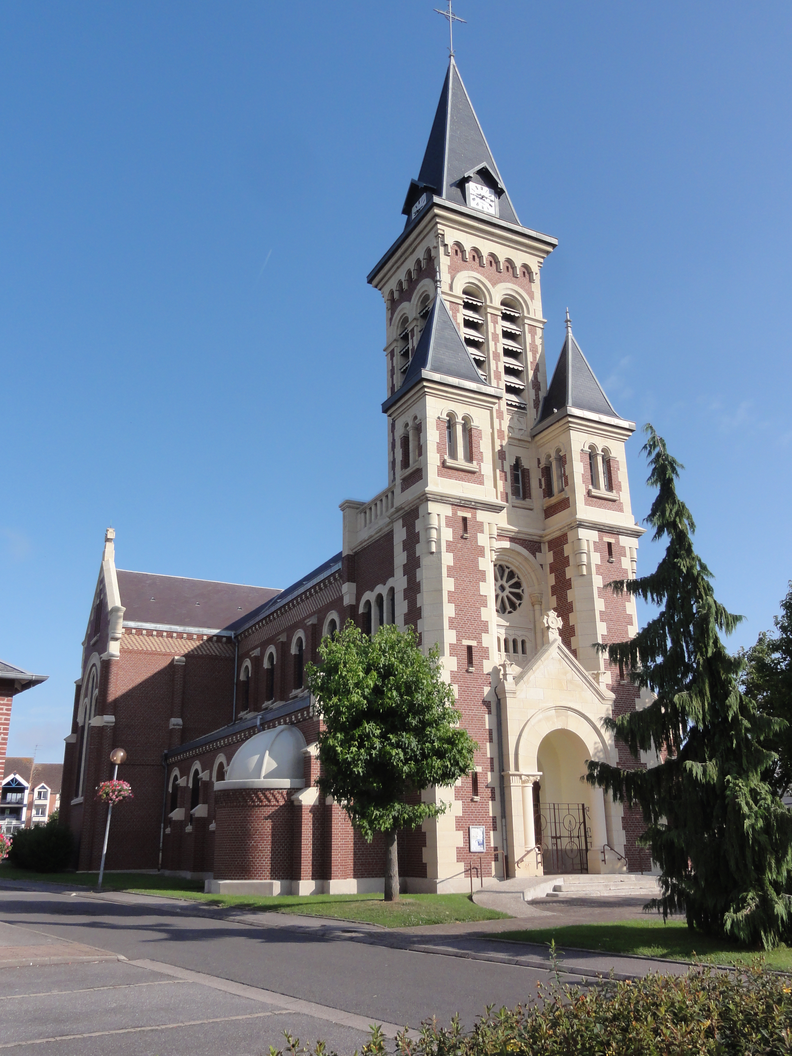 Holnon (Aisne) église Saint-Quentin